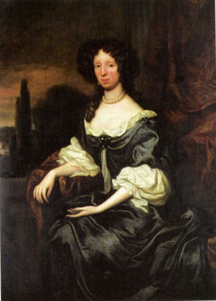 Portrait of Anne Hamilton, 3rd Duchess of Hamilton (1632-1716)